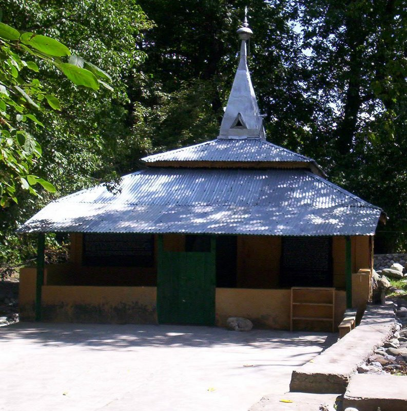 This is the famous Shrine in Gurez Valley